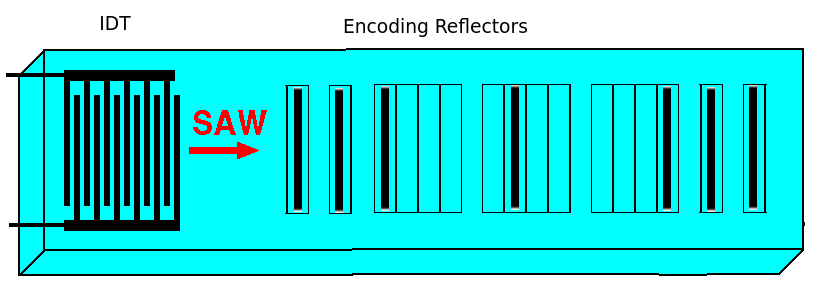 SAW RFID tag encoding 013 in base 4 with calibration bit and error correction bit